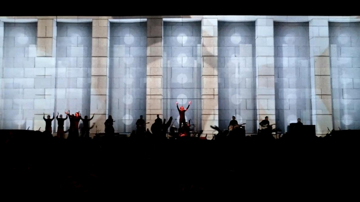 I took this photo from the 25th row, center stage, using a Kodak Playsport camera.